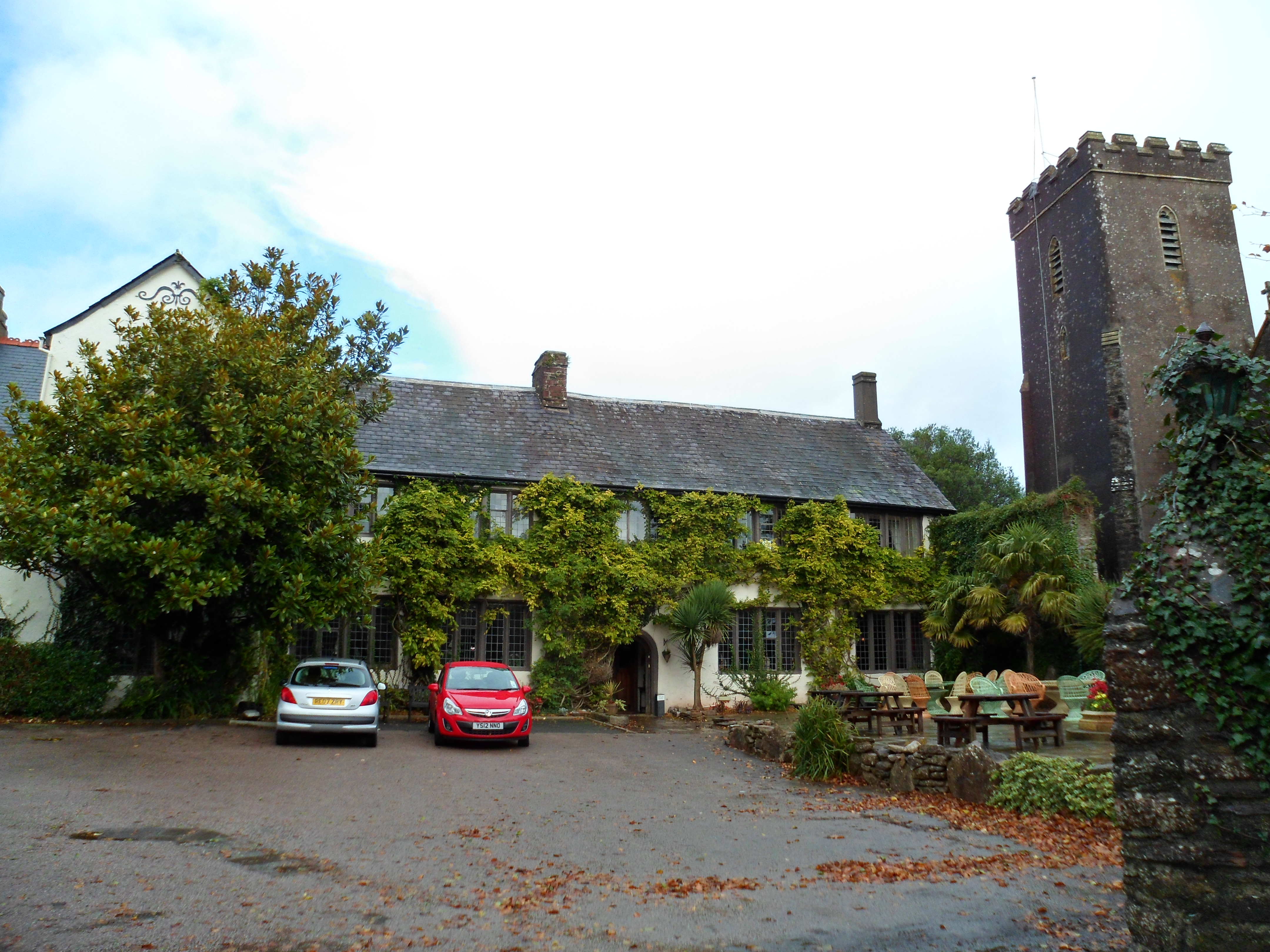 Churston Court Inn, Churston Ferrers, Devon, with the tower of St Mary the Virgin parish church on the right